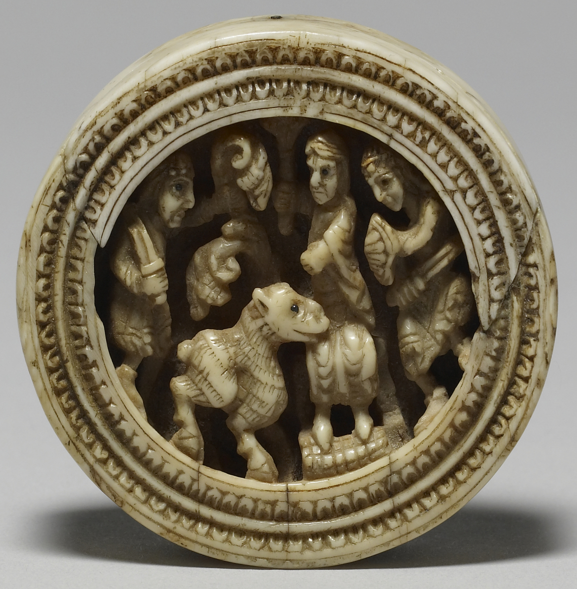 On this richly carved game piece, two soldiers, shown with swords and shields, present a sheep to an enthroned figure with a scepter in his hands The dark stone inlay used for the figures' eyes and the deep, fine carving indicate costly workmanship. The upper portion of the border is a modern restoration.